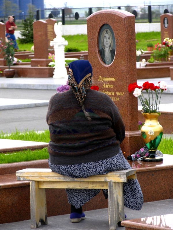 A mother mourning the death of her daughter at the new Beslan cemetery where most of the victims of the School No. 1 terrorist incident are buried.